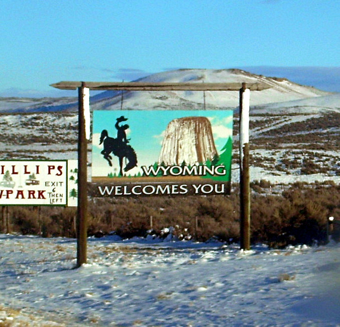 Wyoming state welcome sign, along Interstate 80, entering from Utah.